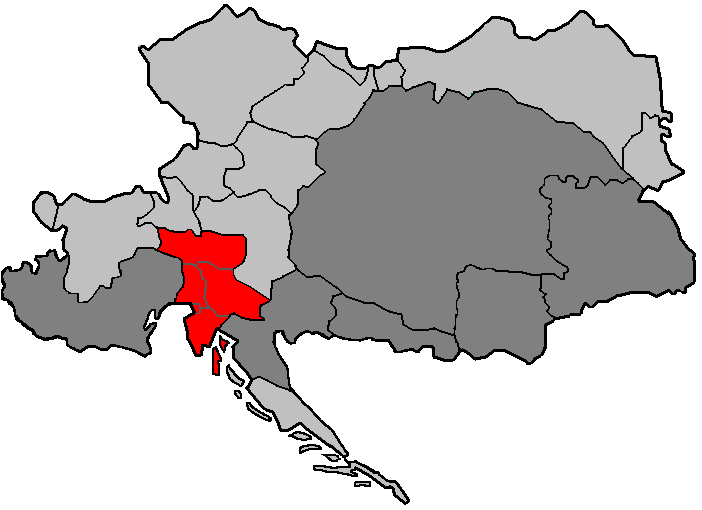 Map of Austria-Hungary